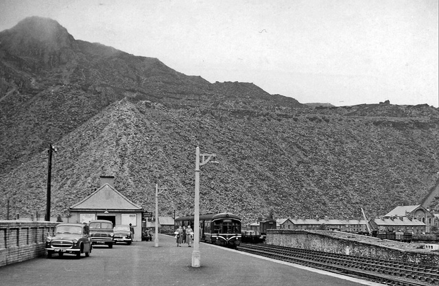 Blaenau Ffestiniog North Station View NW, towards Llandudno Junction, also Portmadoc by Ffestiniog Railway; ex-LNW terminus of Conway Valley line from Llandudno Junction, to where the DMU is ready to leave. This station closed 25/5/82 when it was replaced by a new station ¼-mile east on site of former Central (ex-GWR) station, the connecting link having been opened (to serve Trawsfynydd Nuclear Power Station) on 20/4/64. The former Duffws terminus of the original Ffestiniog narrow-gauge Railway from Portmadoc, which closed to passengers on 18/9/39 (goods 1/8/46) had been on the left. The restored Ffestiniog Railway now also runs to the new 1982 station, having been gradually rebuilt in stages (with deviations) from Portmadoc starting on 23/7/55.